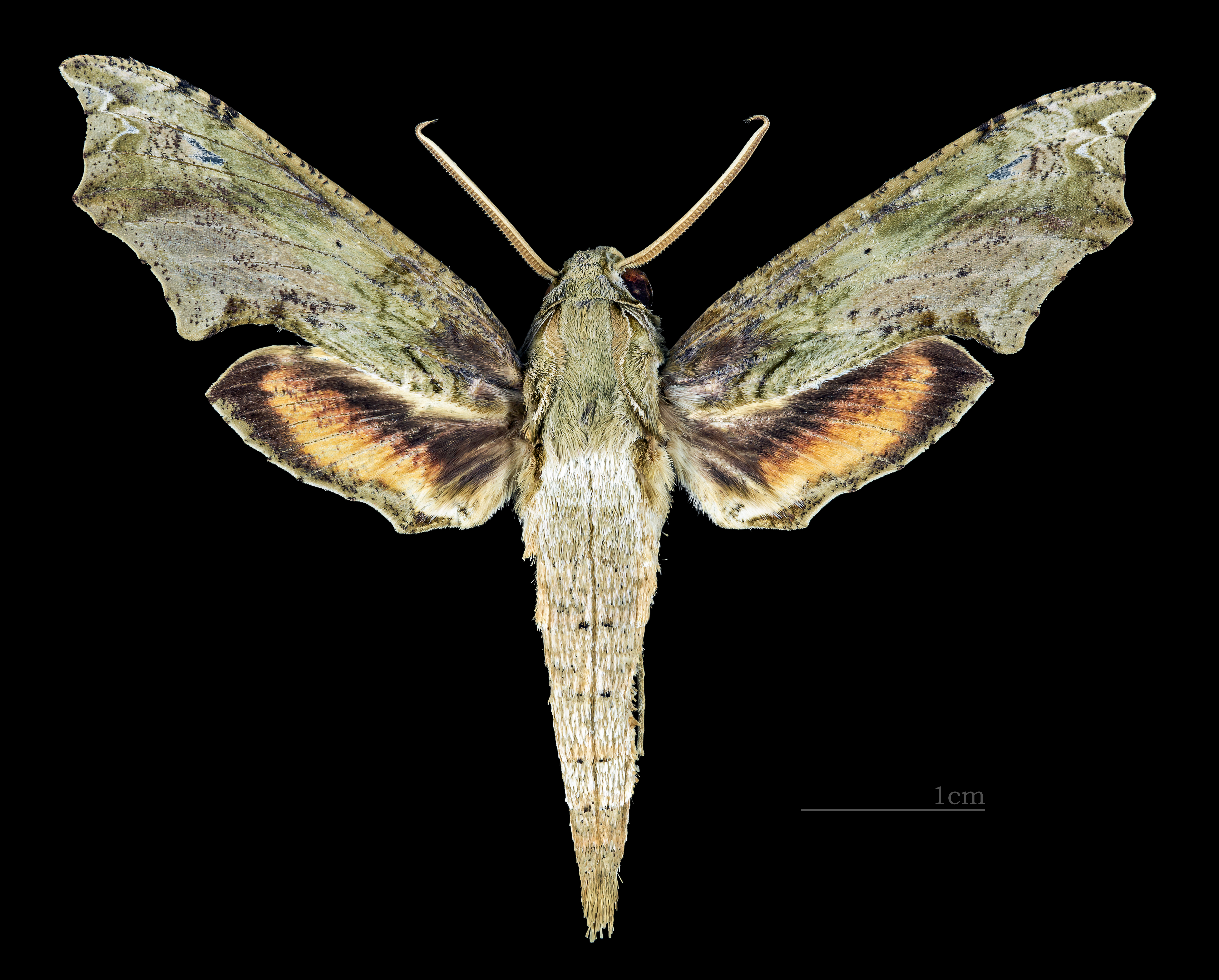 Eupanacra splendens - Dorsal side Collection of the Mathematician Laurent Schwartz